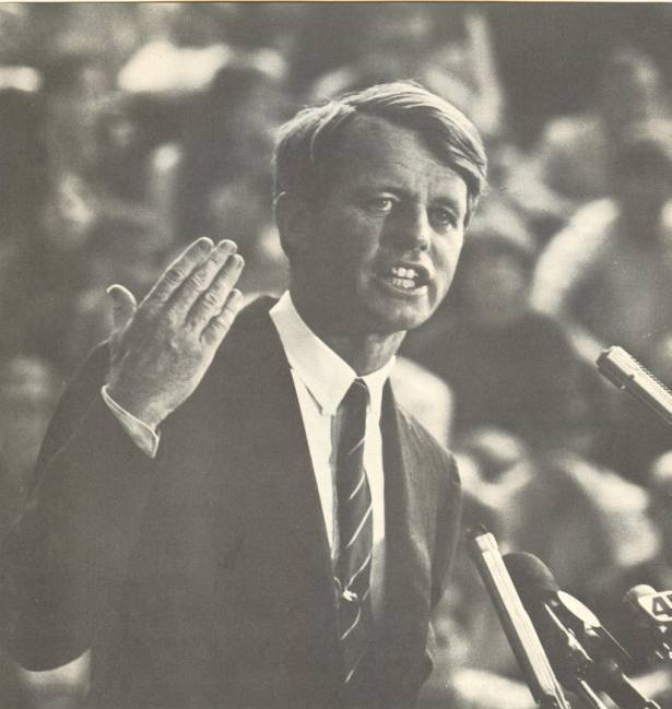 Kennedy 1968 campaign handout for Indiana primary